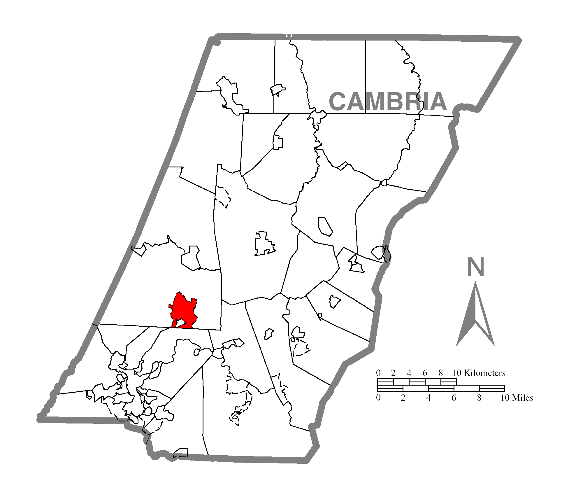 A map of Cambria County showing Vinco, Pennsylvania (alternate) highlighted on the map.